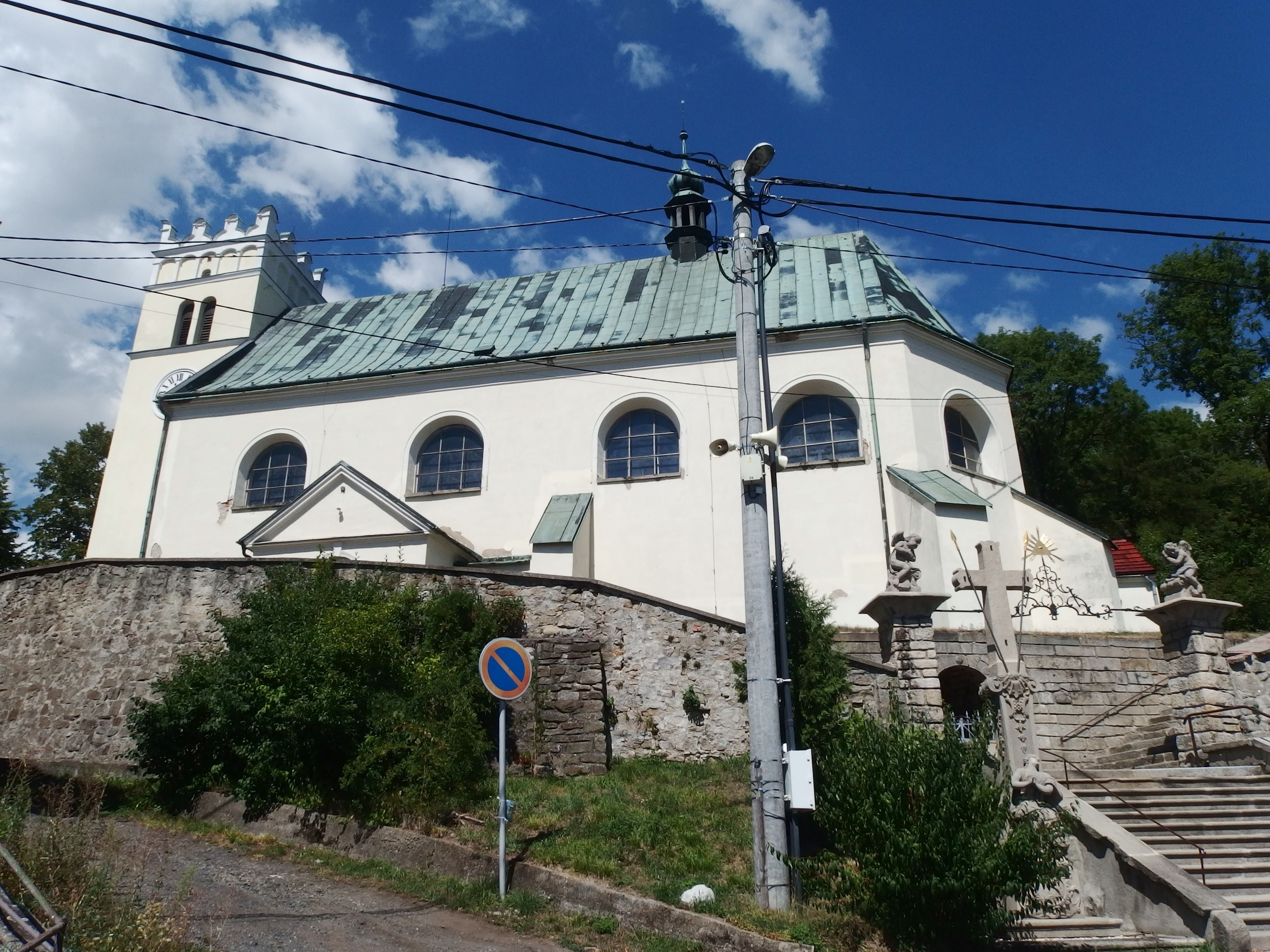 Starý Jičín, Nový Jičín District, Czech Republic.